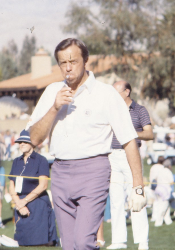 (1 in a multiple picture set) He was a NASA astronaut who in 1961 became the second person, and the first American, in space. Ten years later, at age 47 the oldest astronaut in the program, Shepard commanded the Apollo 14 mission becoming the fifth person to walk on the Moon, and he hit two golf balls on the lunar surface. Of all the celebrities we saw that day, he meant the most to me, and we got to shake his hand.